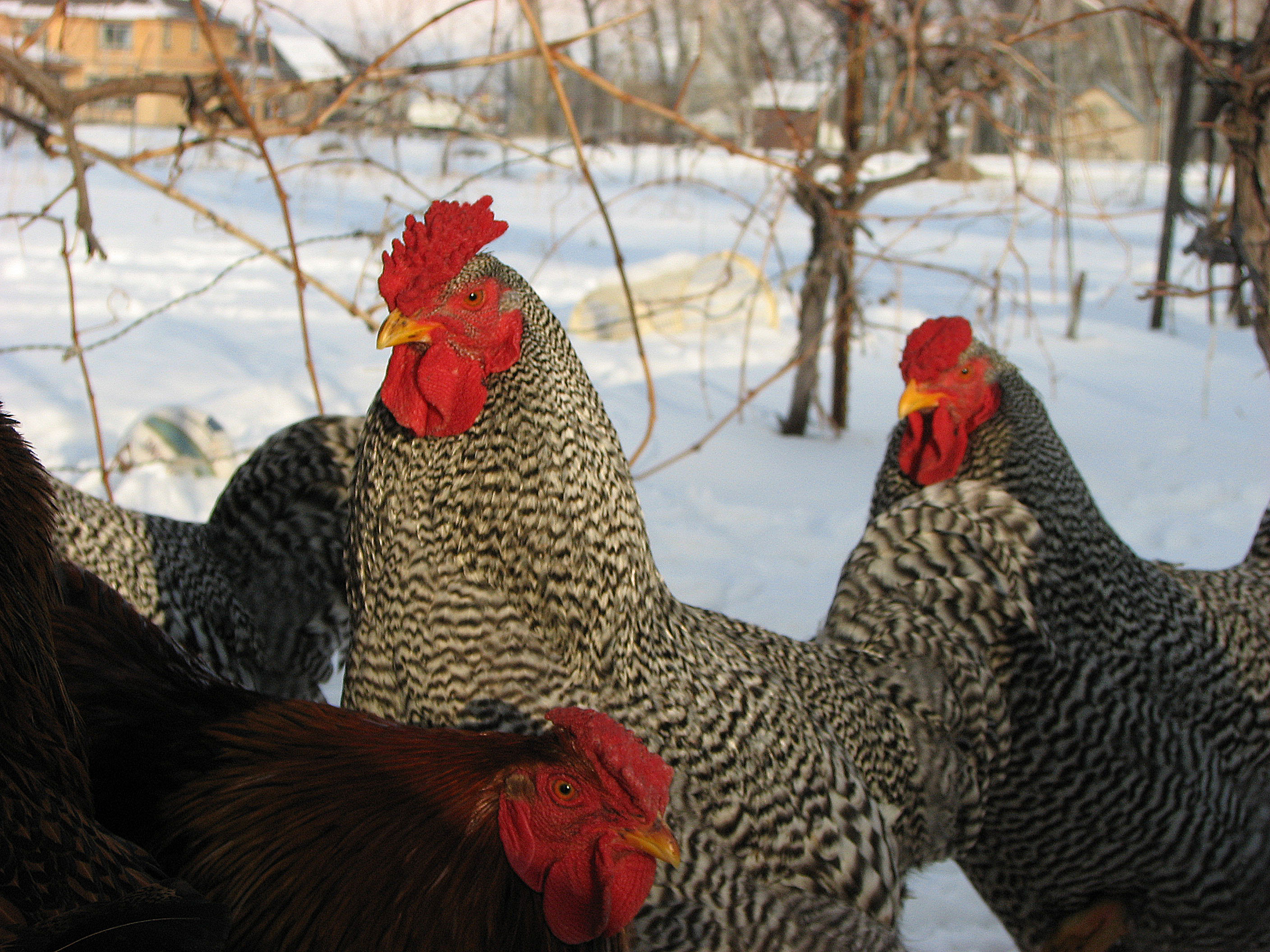 Zeus (center), a Dominique cockerel in a small flock residing in Northern Utah, USA. Zeus was hatched in July 2007 and is now living with harem of ten Domonique hens. Note the highly developed comb, when compared to the rooster at the right side of the photo -- both roosters are the same age. Photographer: Ron Proctor Photograph Date: 19 January 2008. You are welcome to use this work in accordance with the Creative Commons Attribution-Share Alike License.